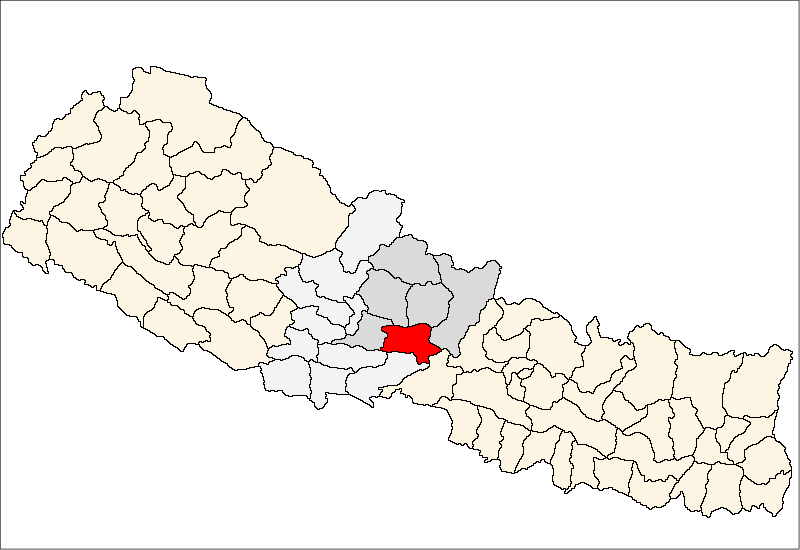 FrenchCarte de localisation dudistrict de Tanahu(wp-FR),au Népal (wp-FR).EnglishLocation map ofTanahu District(wp-EN),in Nepal (wp-EN).